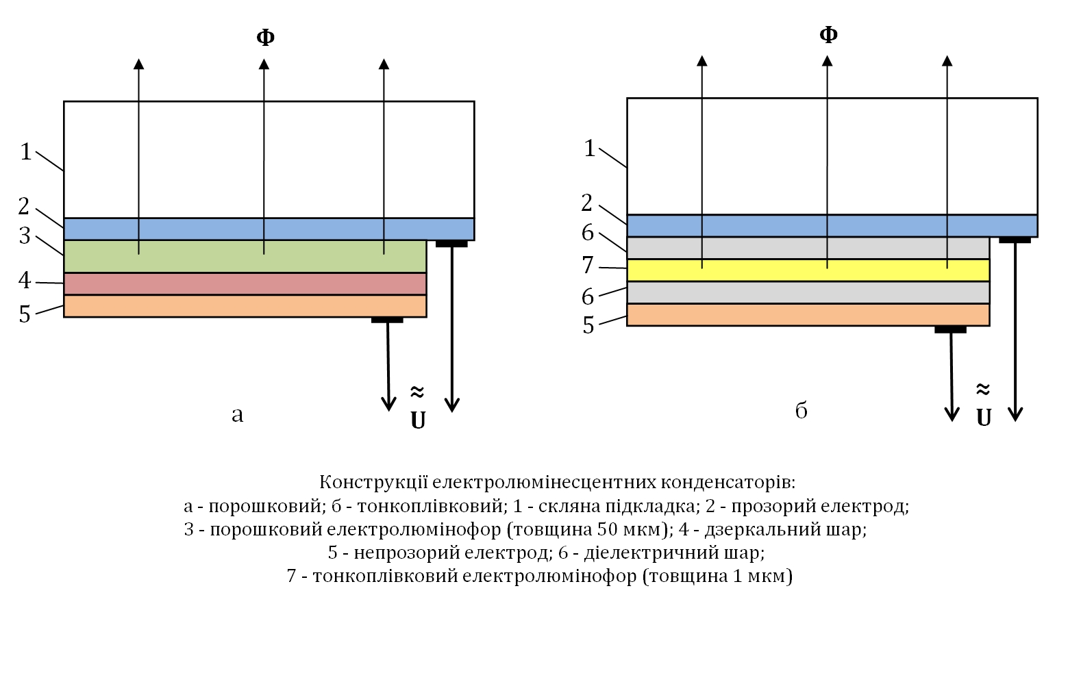 The design of electroluminescent capacitors